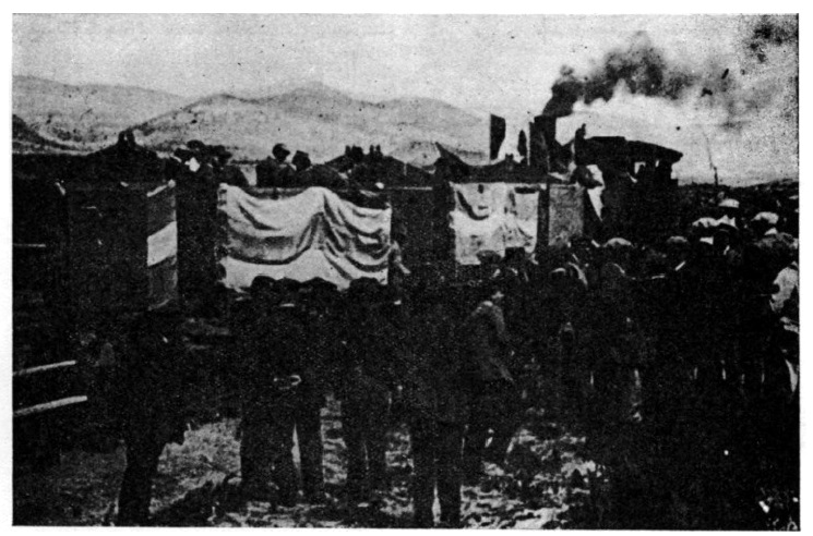 Inaugural trip of the first section from Comodoro Rivadavia to Cañadón Lagarto, with the train decorated with the flag of Argentina. The line reached Colonia Sarmiento in 1914.